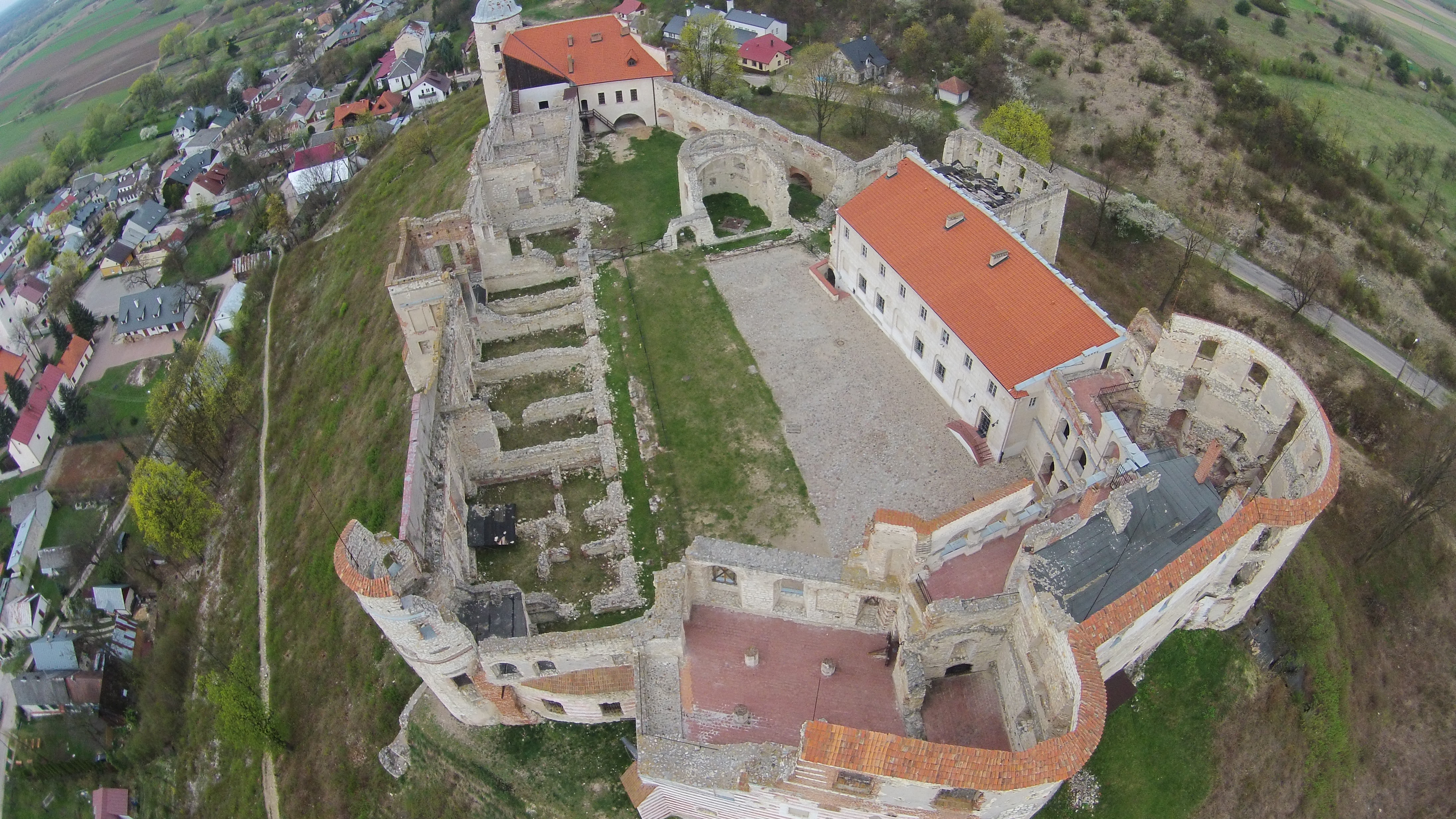 Janowiec Castle